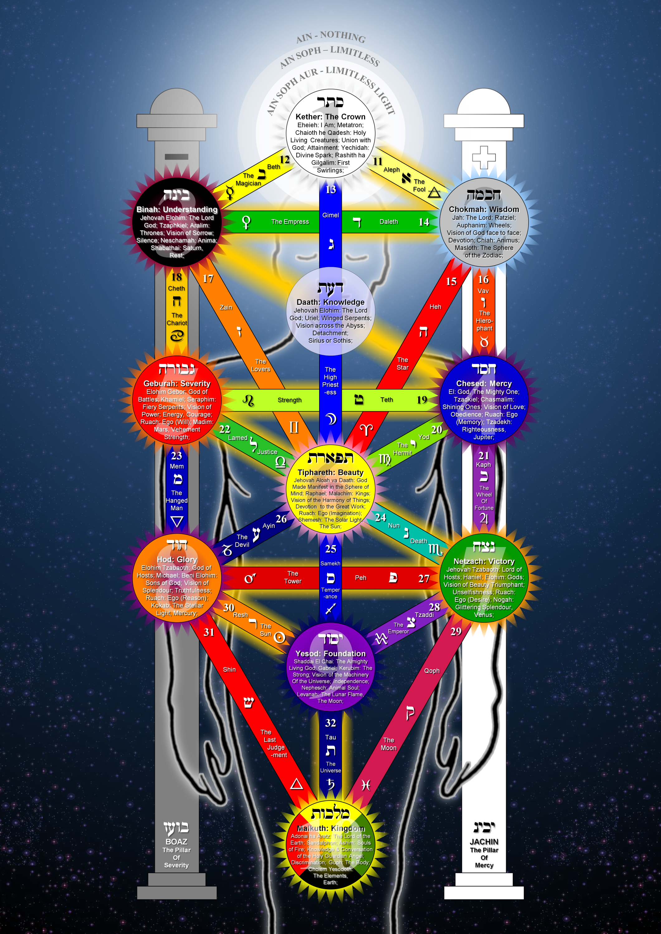 Qabalistic Tree of LifeIn the Golden Dawn tradition the Emperor is associated with path 15, and the Star with path 28. However, my tradition is not that of the Golden Dawn. My tradition is from the Gareth Knight, Dolores Ashcroft-Nowicki, Servants of the Light lineage, which places the Emperor on path 28, and the Star on path 15.